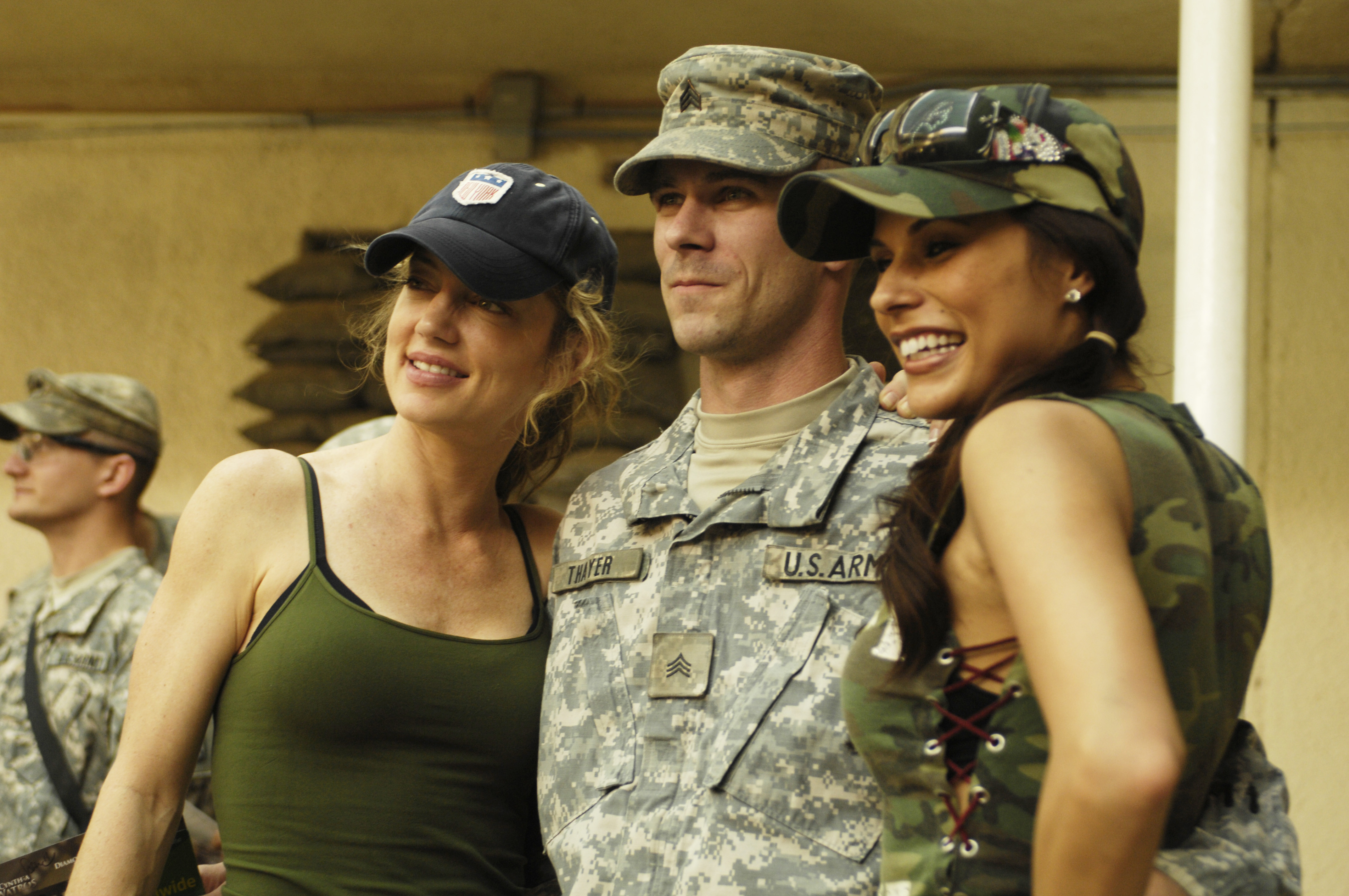 U.S. Army Sgt. Thayer, of 5th Battalion, 25th Field Artillery Regiment, 4th Brigade Combat Team, 10th Mountain Division, enjoys a visit with actress Cynthia Watros and television personality Bonnie-Jill Laflin, assistant general manager for the Los Angeles Lakers Development League during the Ambassadors of Hollywood Tour sponsored by Morale, Welfare and Recreation on Forward Operating Base Rustamiyah in Baghdad, Iraq, March 13, 2008. (U.S. Air Force photo by Staff Sgt. Jason T. Bailey) (